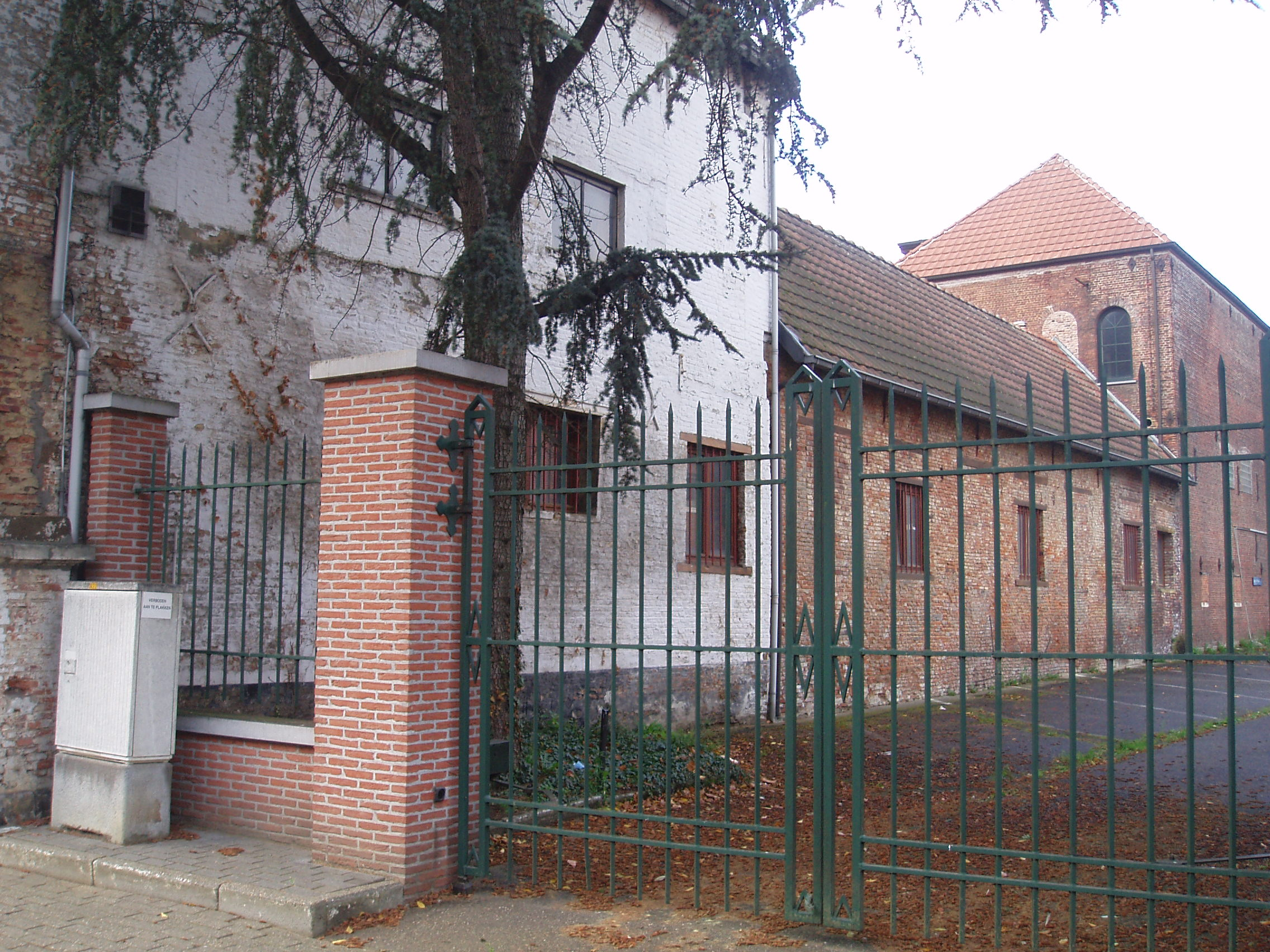 Loterbol brewery right side